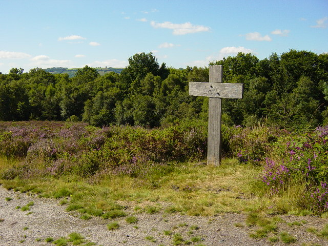 Bovey Heath. In 1645 Bovey Heath was a battle field in the English Civil War. Some of the fallen are buried on the heath and this cross was erected by the Local History Society in 1977. Looking west towards New Park.